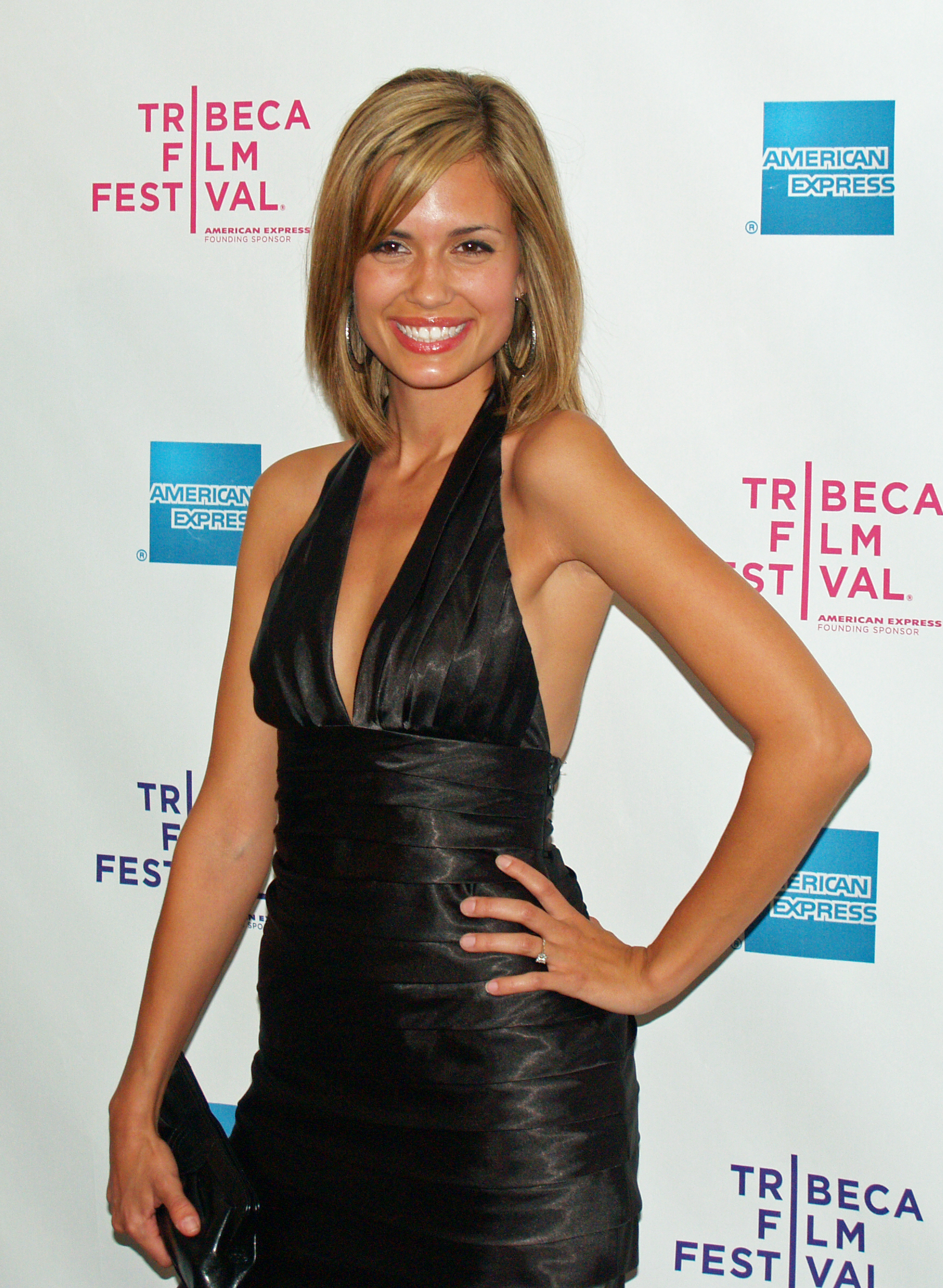 Torrey DeVitto at the premiere of Killer Movie at the 2008 Tribeca Film Festival.